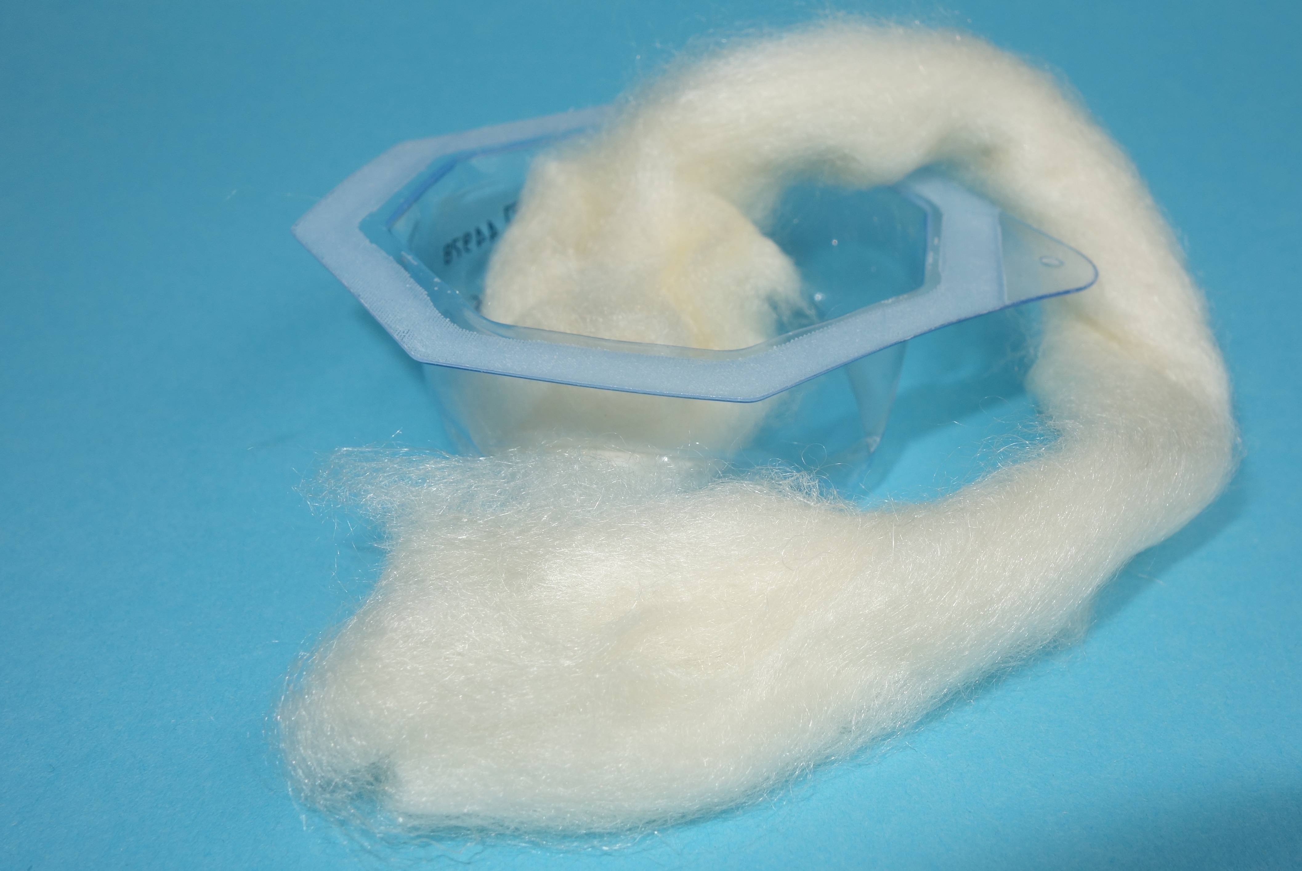 Dressing for wound treatment